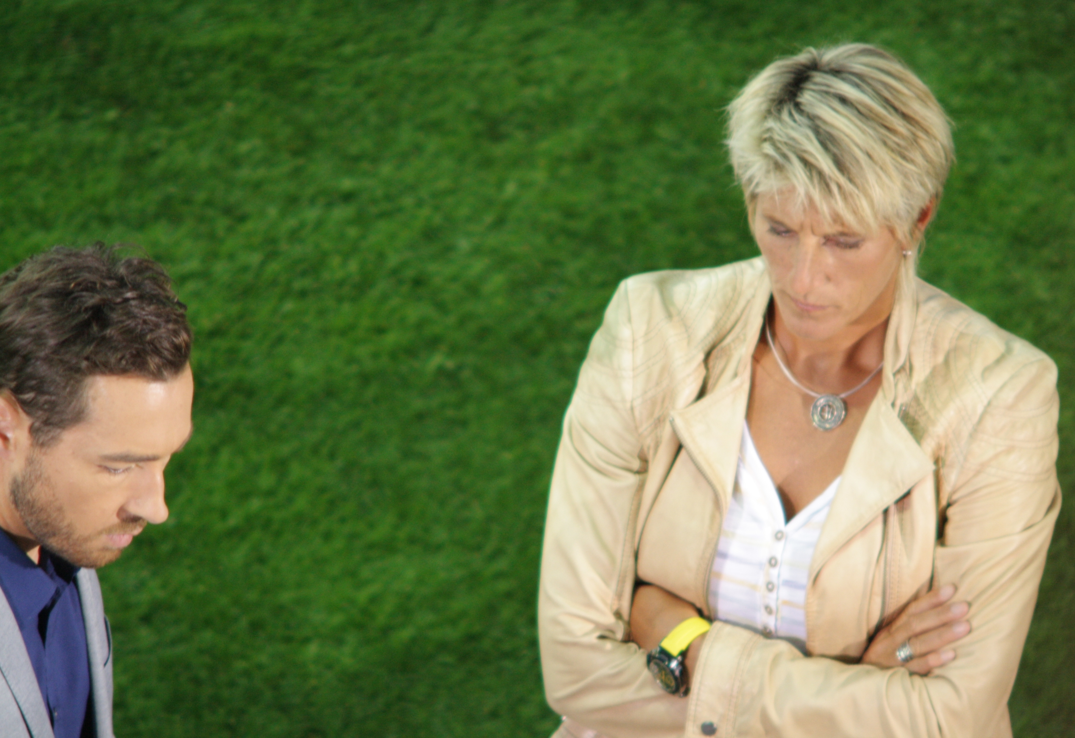 Sven Voss and Silke Rottenberg at the UEFA Women's Euro 2013